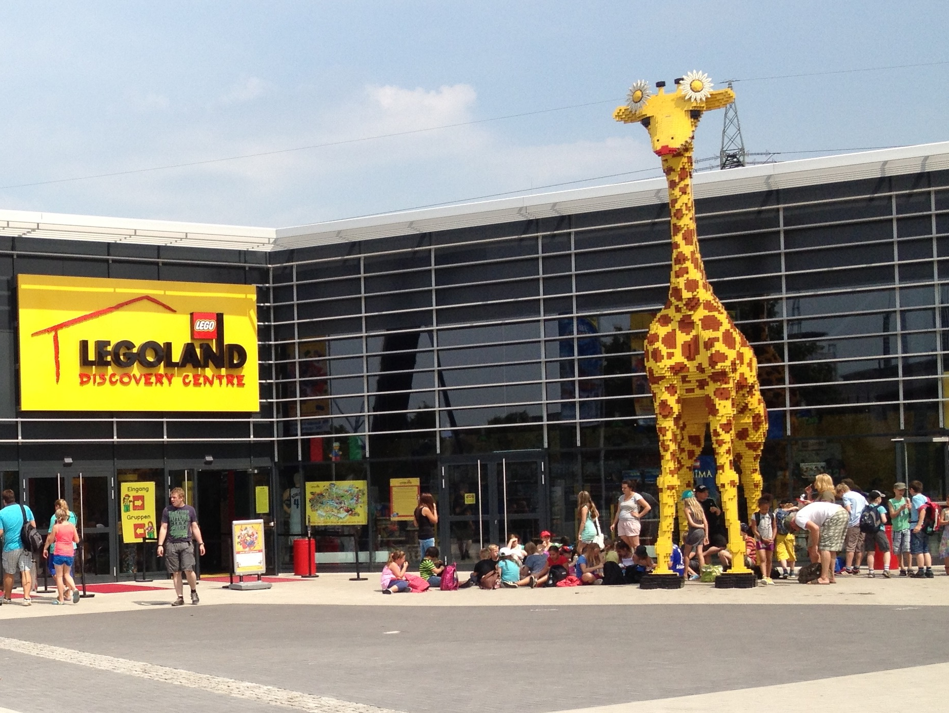 Legoland Discovery Centre, Oberhausen, Germany